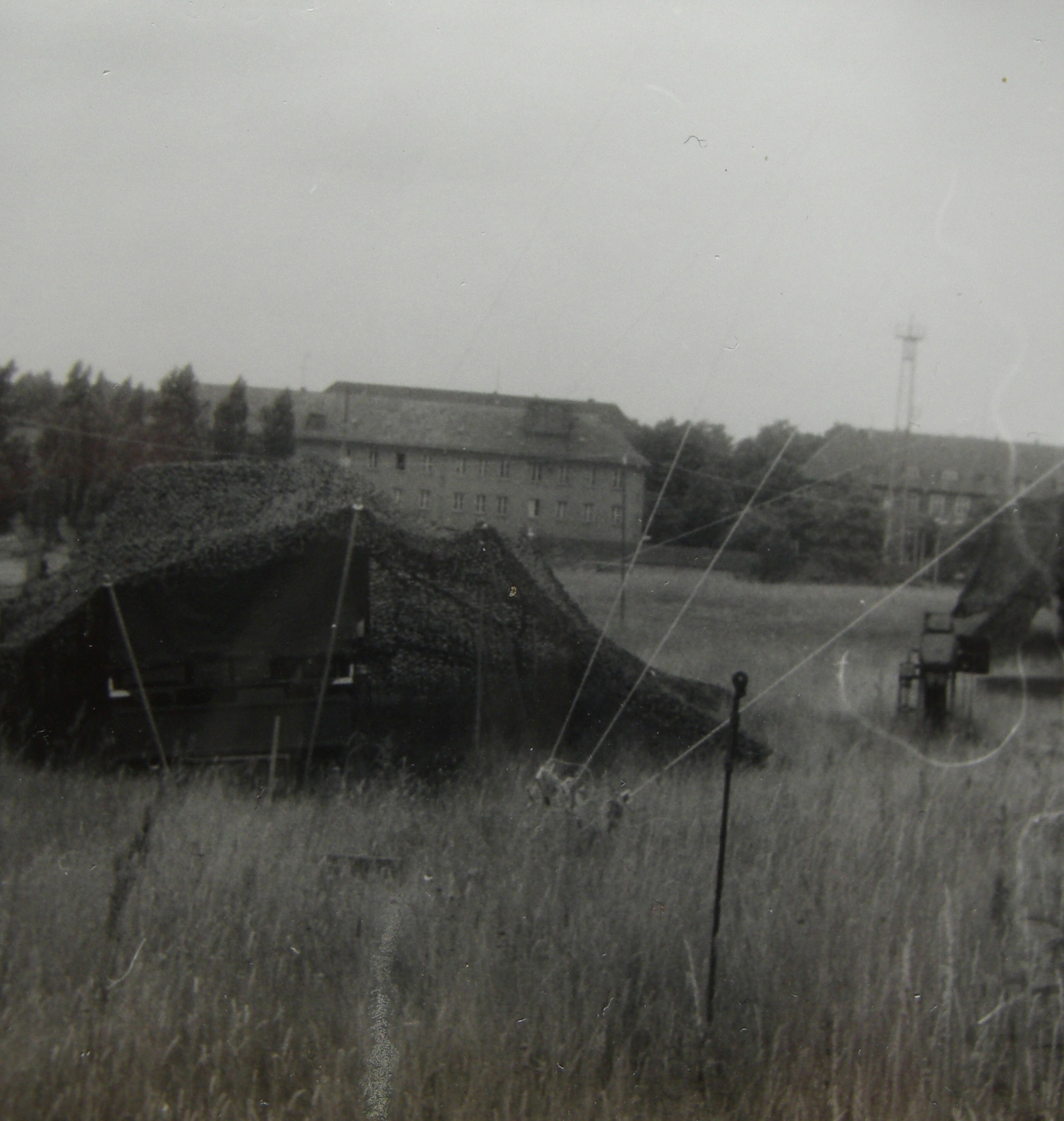 Radio relay station RT-415 in operation position with the building of the 8th company (NR-14, site Rotes Luch) in the background.